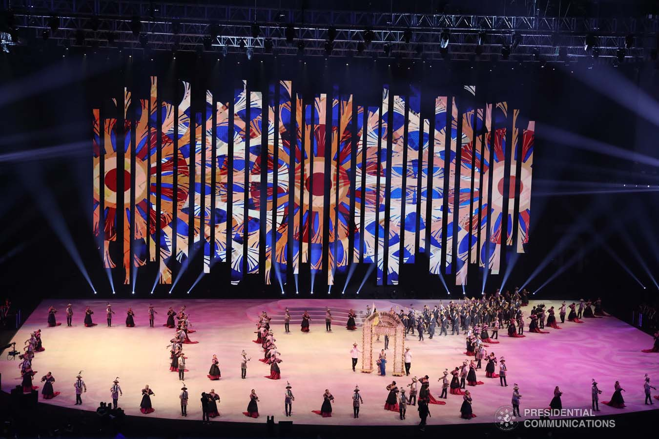 Delegates from Brunei Darussalam make their entrance during the opening ceremony of the 30th Southeast Asian (SEA) Games at the Philippine Arena in Bocaue, Bulacan on November 30, 2019. TOTO LOZANO/PRESIDENTIAL PHOTO